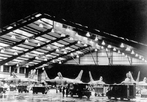 F-105s in Big Hanagar at Korat RTAFB, 1968